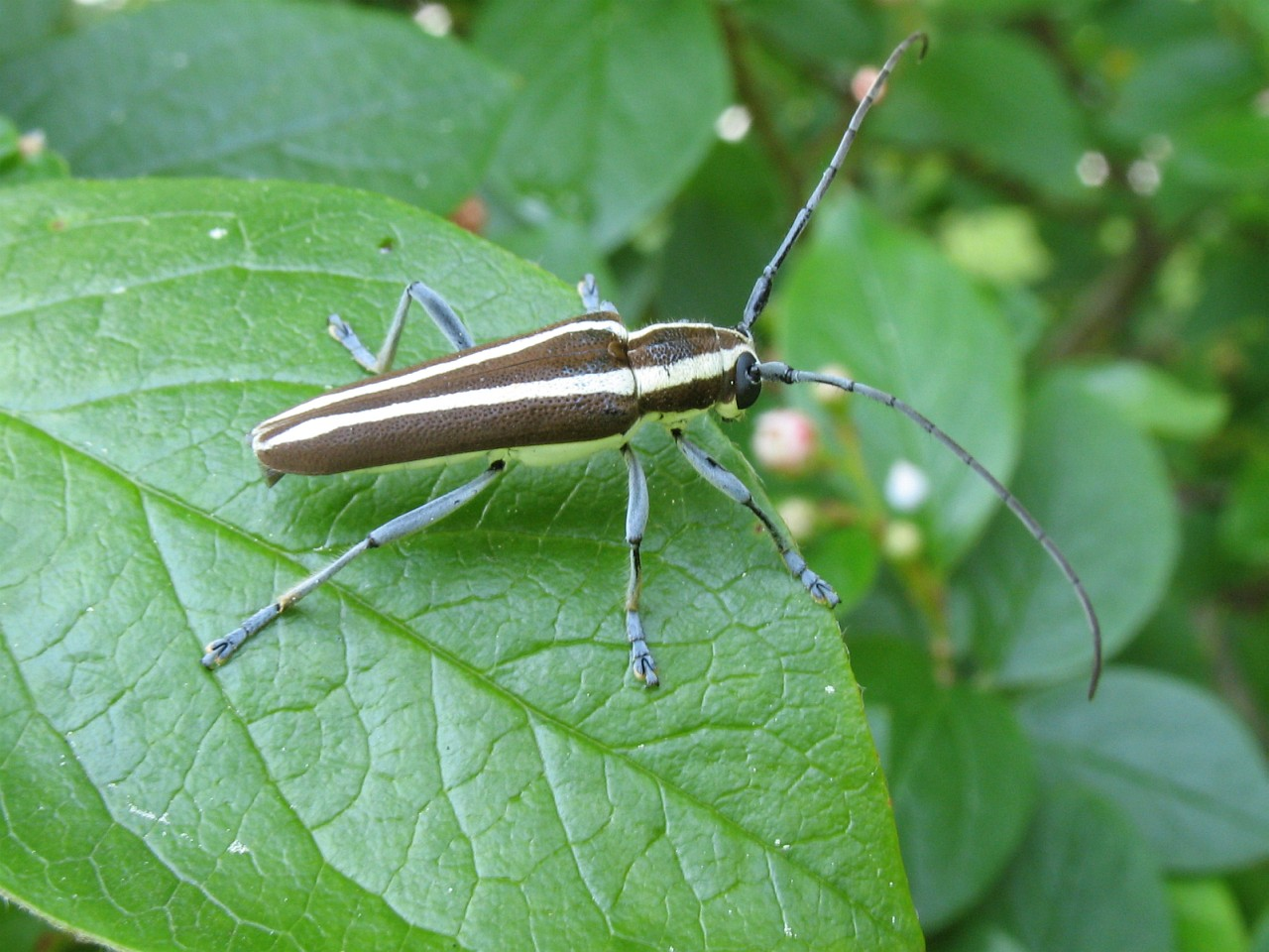 Saperda candida in Bas-Saint-Laurent -- Province de Québec -- Canada